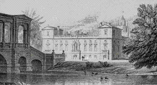 Wilton House, England. Scan of an original 19th century Print. Circa 1820. As far as I am aware there is no copyright.